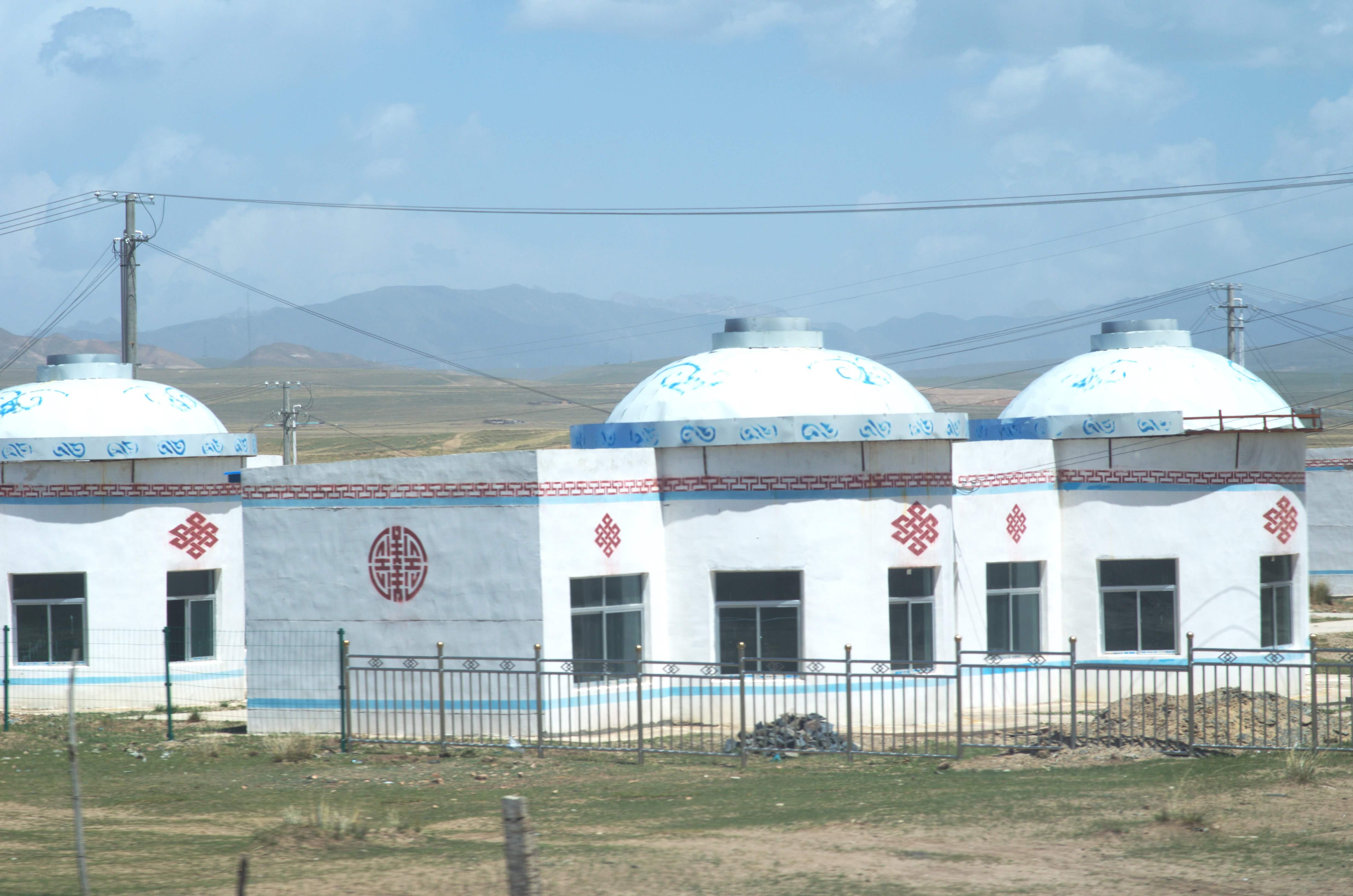 Mongolian yurts in bricks, near the Qinghai Lake.